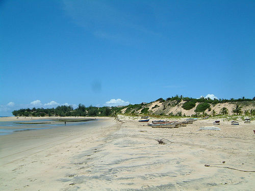 Barra beahc, Inhambane, Mozambique